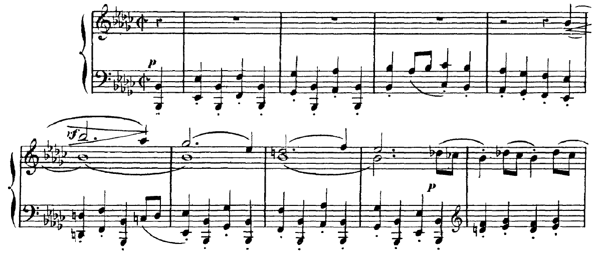 Opening theme of the Presto.